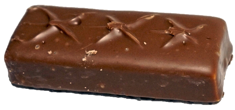 Milky Way chocolate bar, about 21,5 grams.